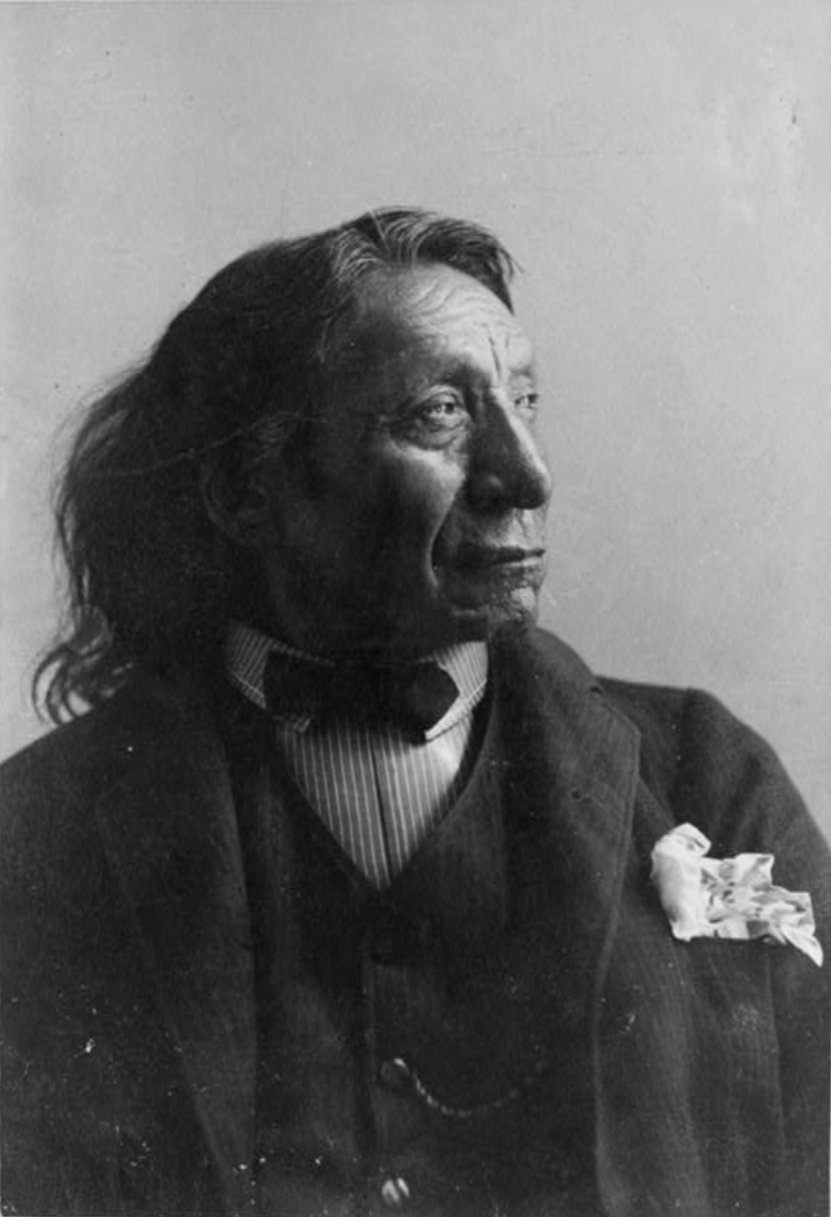 Red Cloud, Oglala division of Lakota, Sioux, head-and-shoulders portrait, facing right wearing suit] / Trager and Kuhn, Chadron, Neb. Other information No.